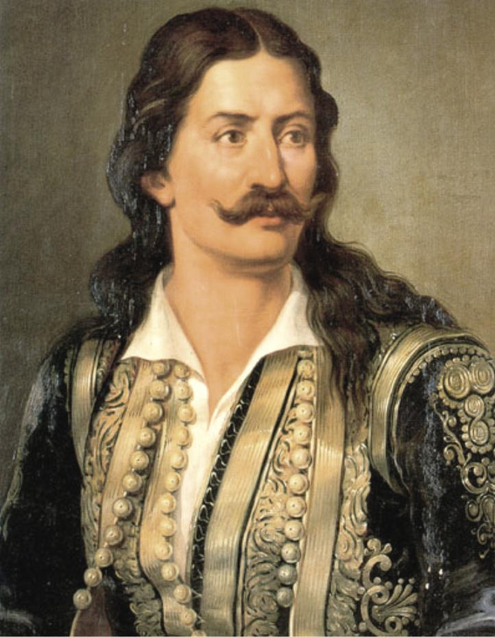 Athanasios Diakos. Painting by Dionysios Tsokos (1861). National Historical Museum, Athens.